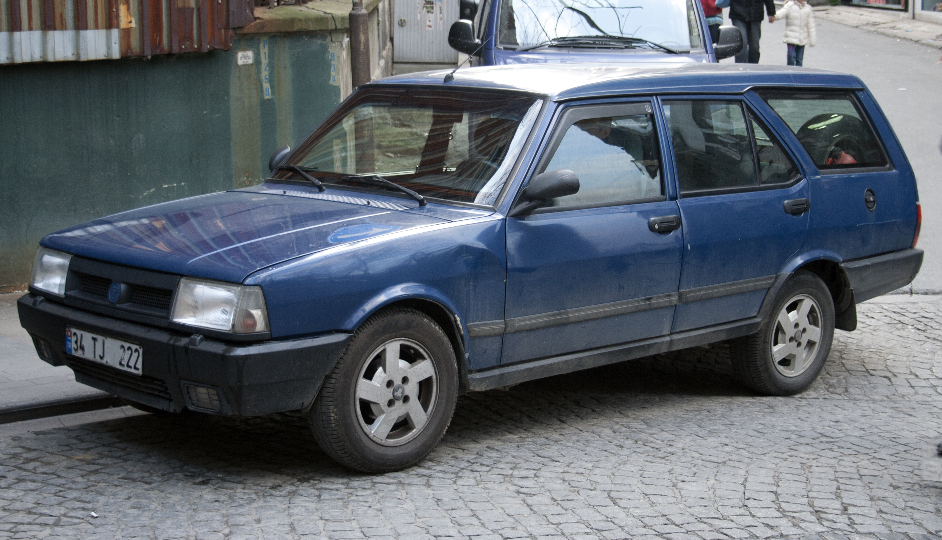 Front view of a Tofaş Kartal S station wagon in Istanbul. This is a late model, with the round Tofaş logo in the grille.